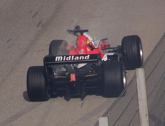 Adrian Sutil testing for MF1 Racing at Valencia in February 2006.